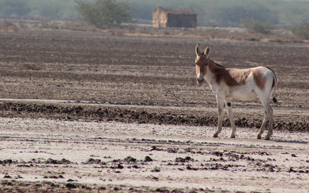 Zainabad, Little Rann, Gujarat. Dec '14. Rann of Kutch